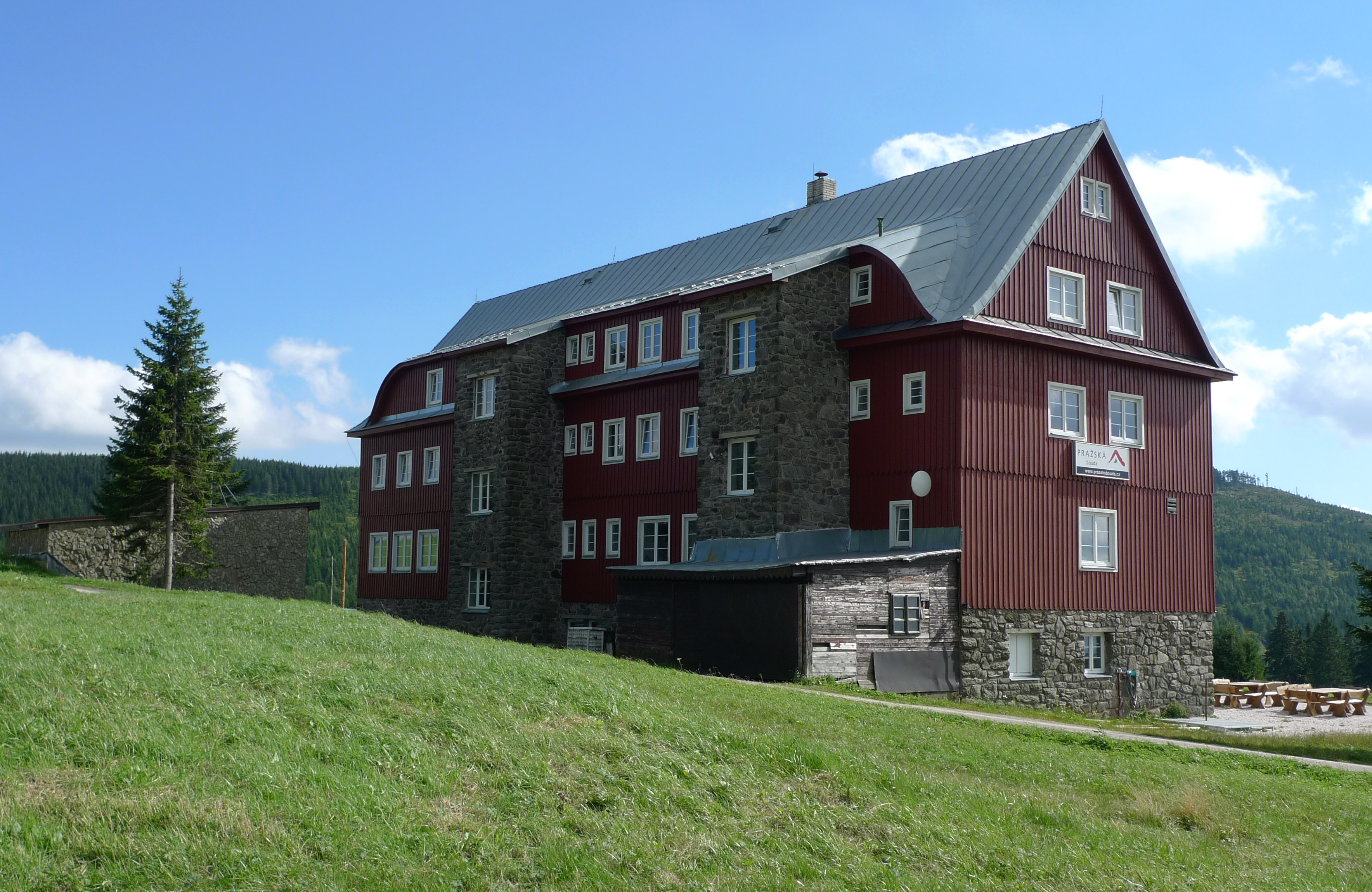 Pražská bouda, Krkonoše, August 2012